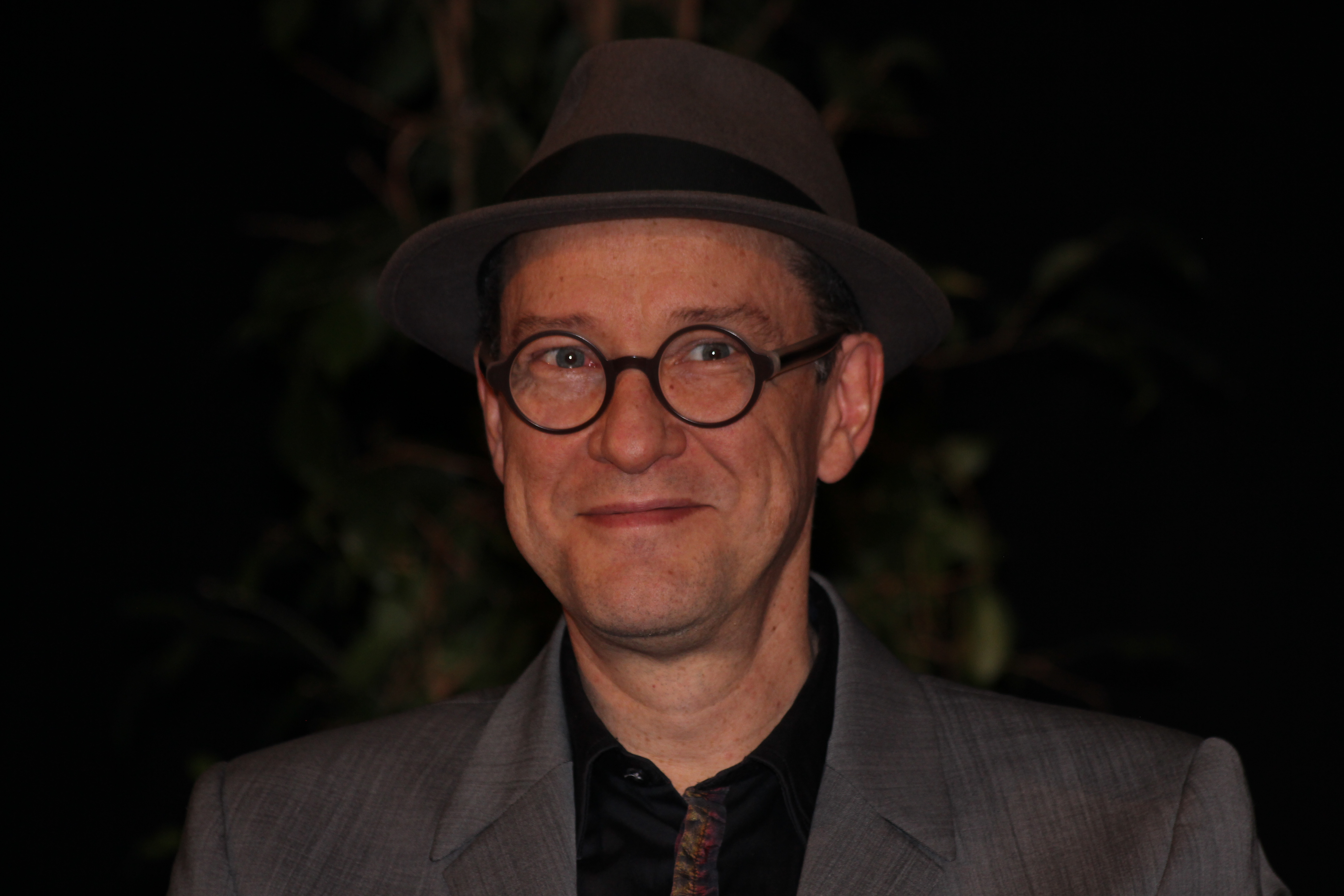 Olivier Cotte during the Utopiales 2015 in Nantes, France. Object location47° 12′ 46.04″ N, 1° 32′ 36.92″ W Personality rights warning Although this work is freely licensed or in the public domain, the person(s) shown may have rights that legally restrict certain re-uses unless those depicted consent to such uses. In these cases, a model release or other evidence of consent could protect you from infringement claims.